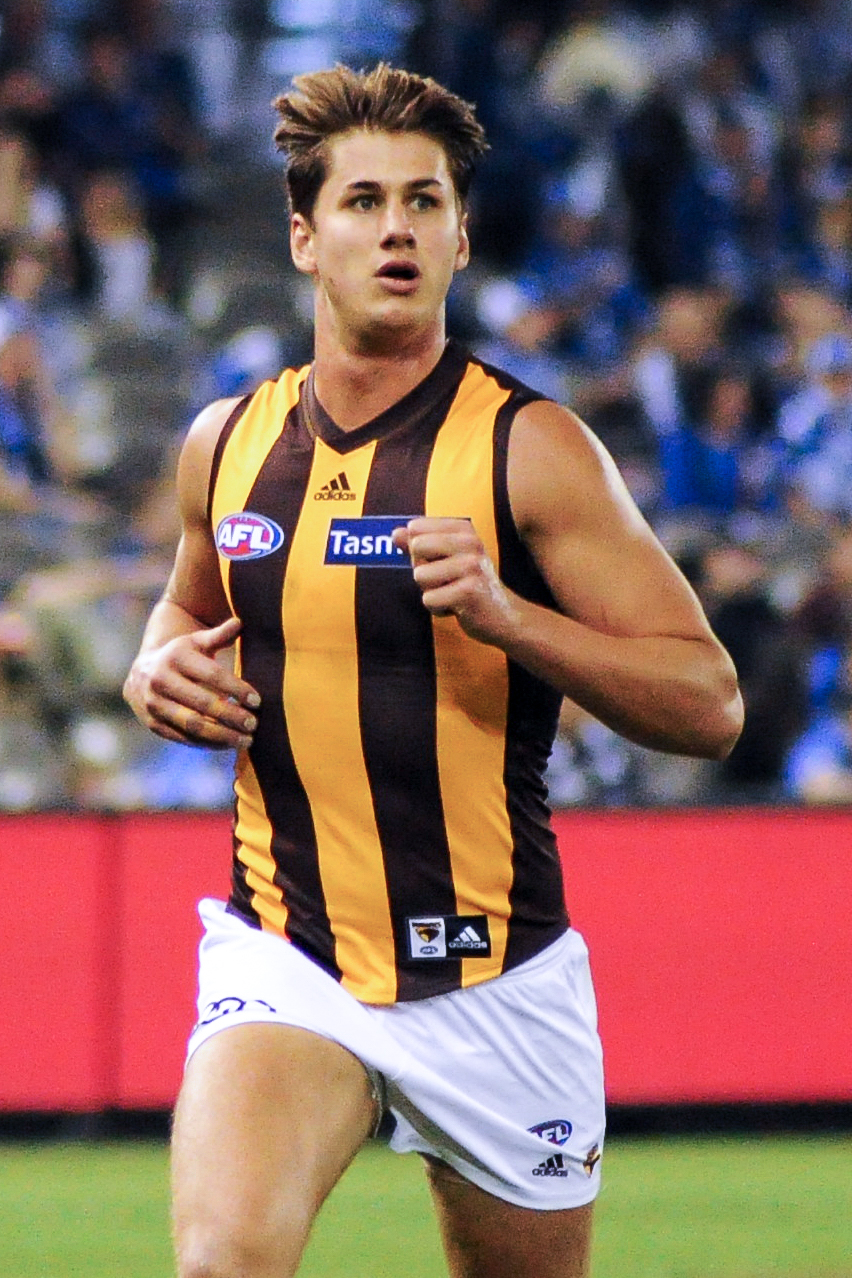 Daniel Howe during the AFL round five match between North Melbourne and Hawthorn on Sunday, 22 April 2018 at Etihad Stadium in Melbourne, Victoria.